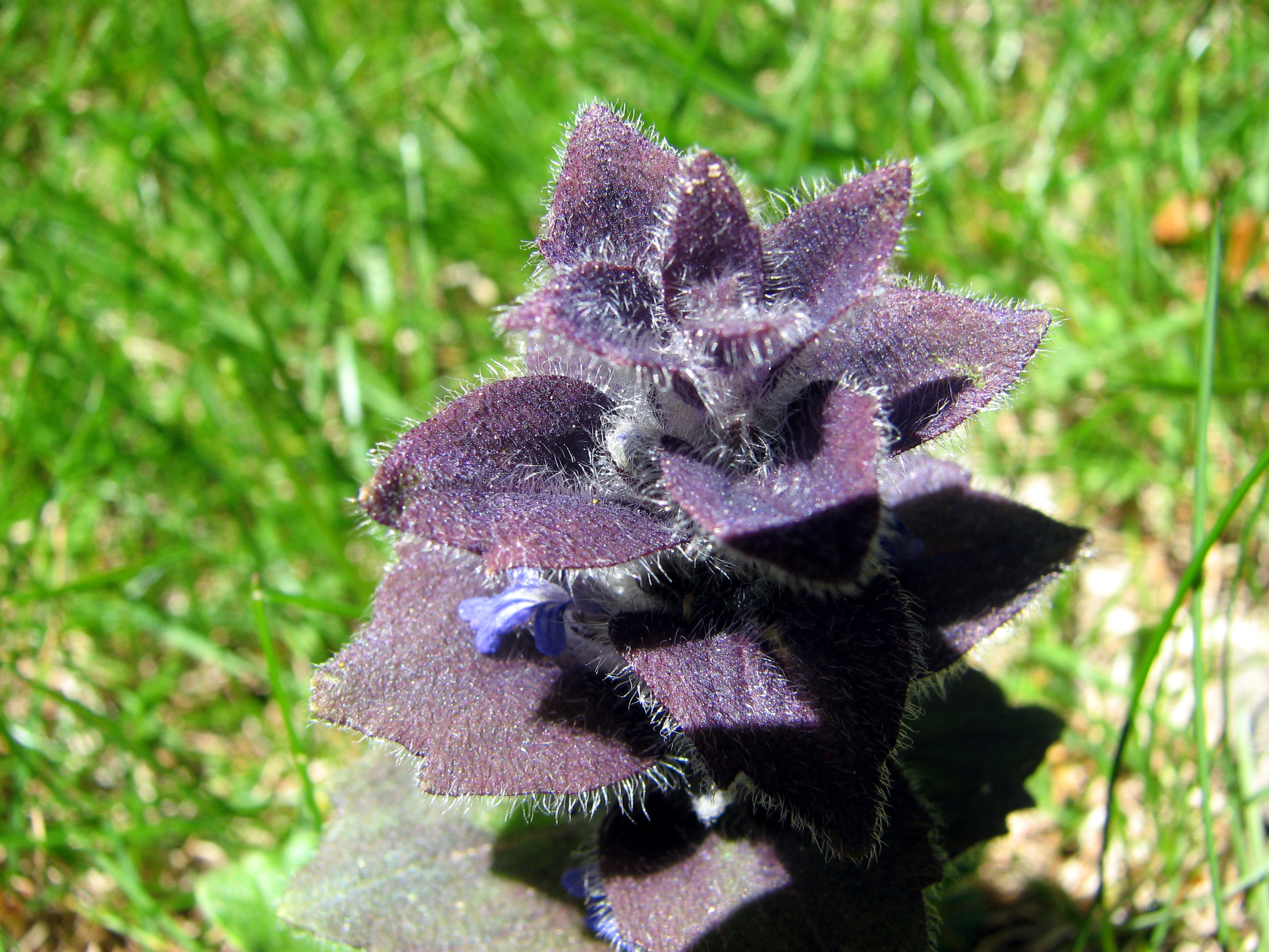 Ajuga pyramidalis found on Stubalm, Styria, Austria